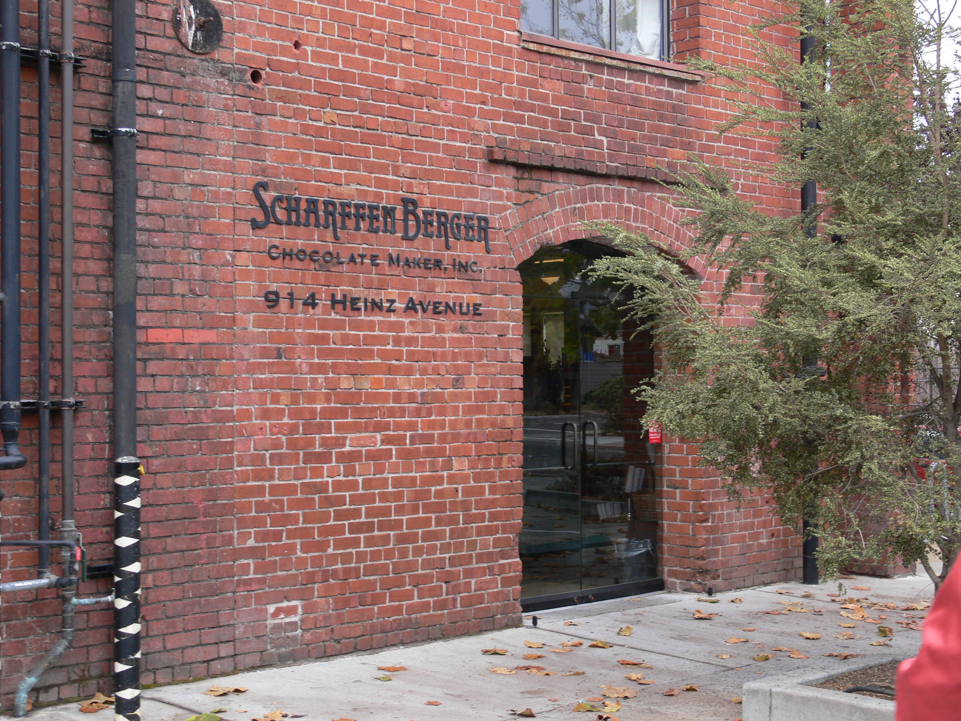 Scharffen Berger Chocolate Maker, Berkeley, California Exterior